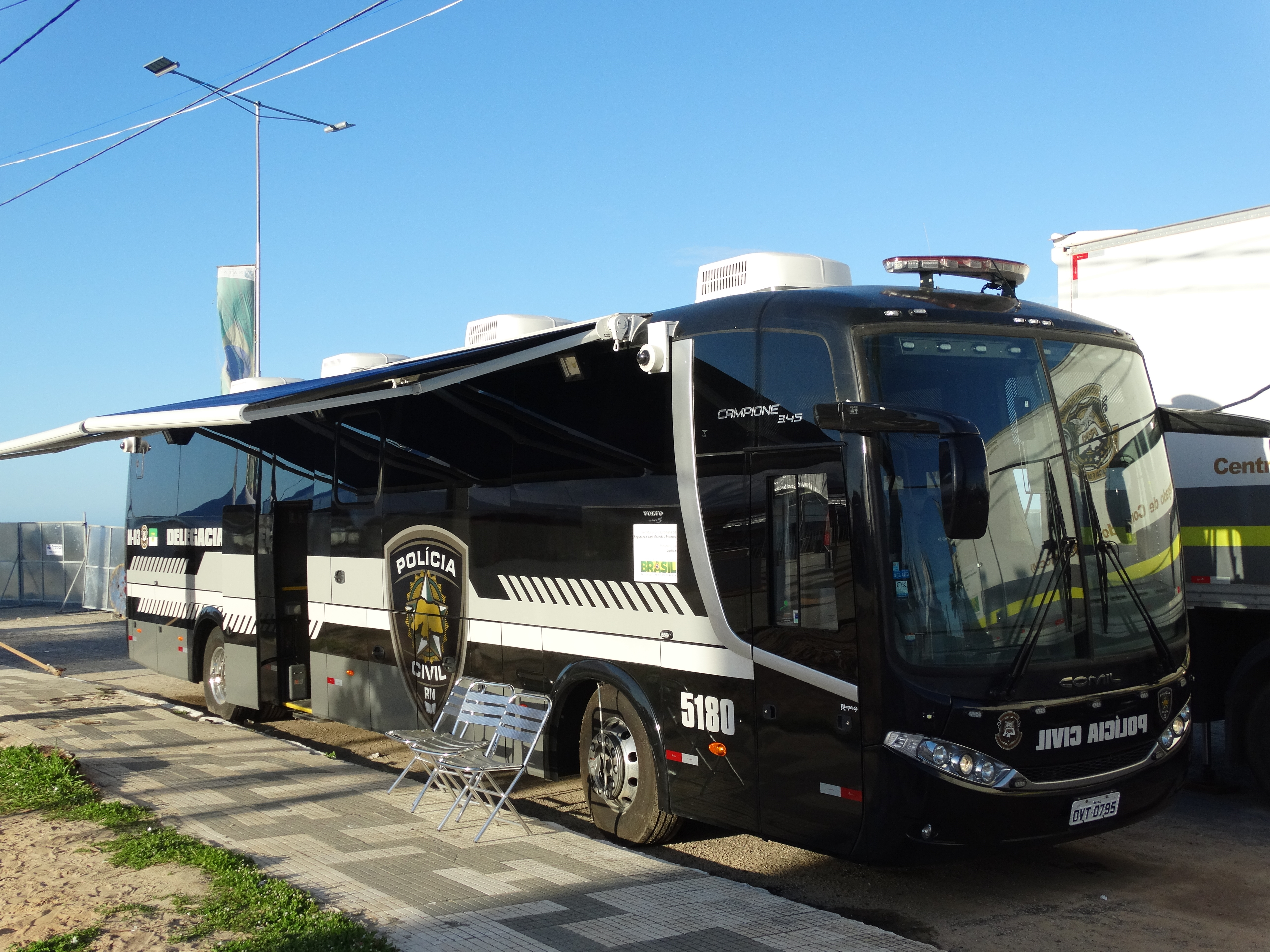 Bus of the Rio Grande do Norte State Police